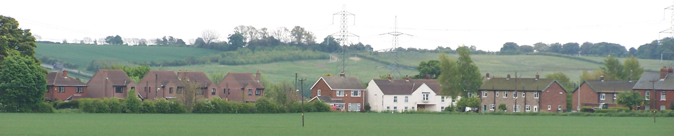 A view of West Halton village